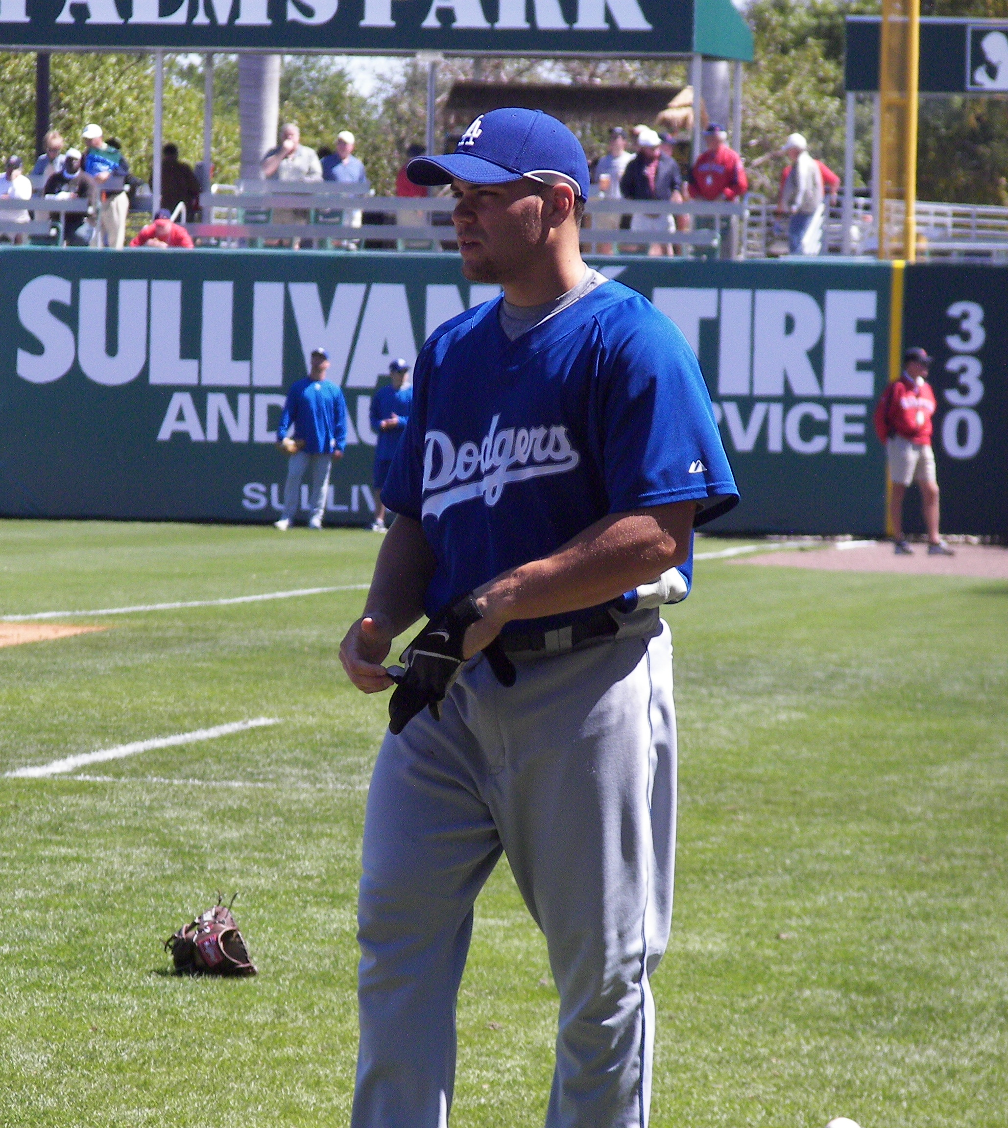 Los Angeles Dodgers catcher Russell Martin before a Dodgers/Boston Red Sox spring training game at City of Palms Park in Fort Myers, Florida.